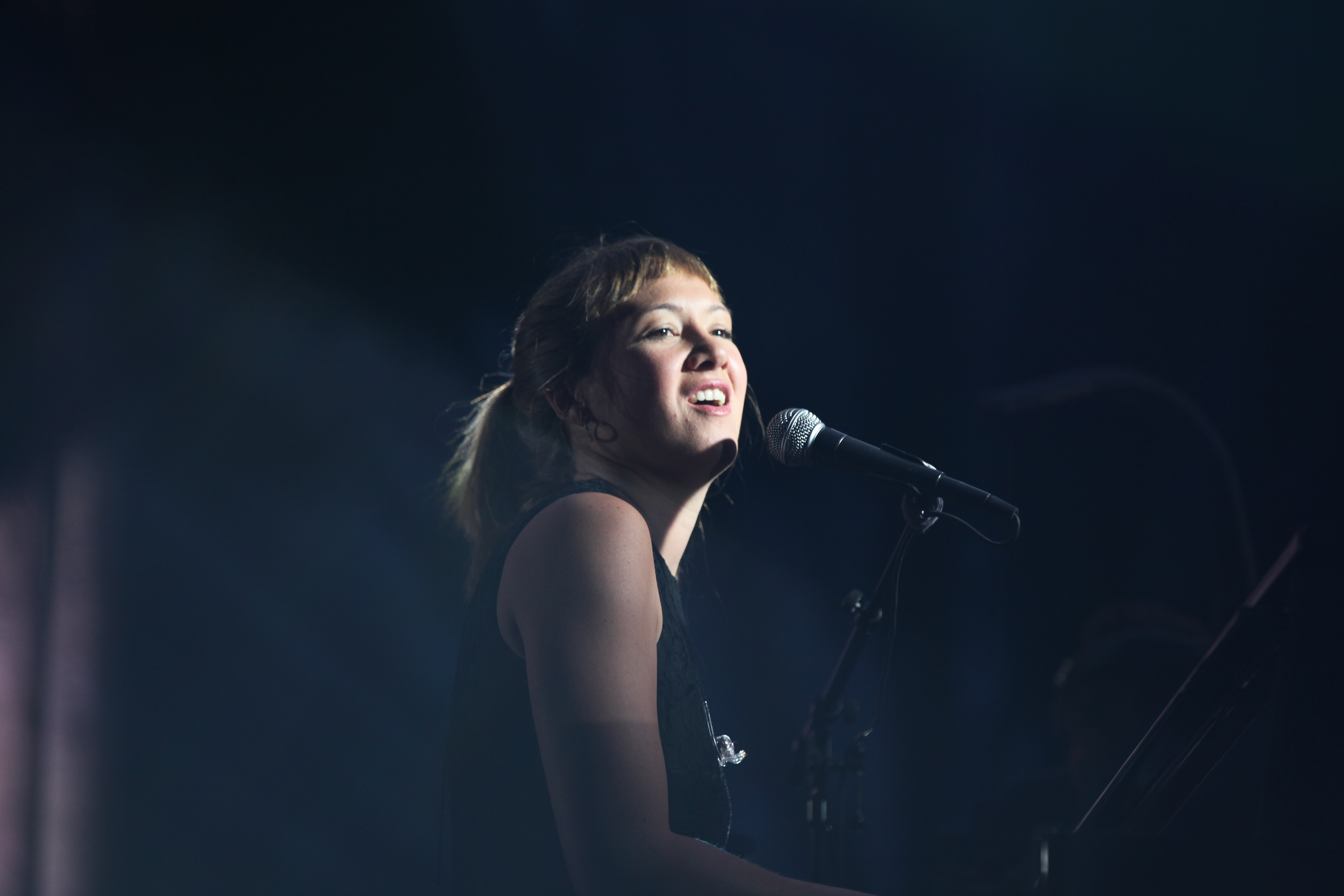 Sophie Hunger with band performing at Heimatsound Festival 2015 in Upper Bavaria, Germany